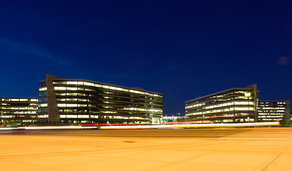 Best Buy corporate campus on Penn Ave in Richfield, Minnesota.